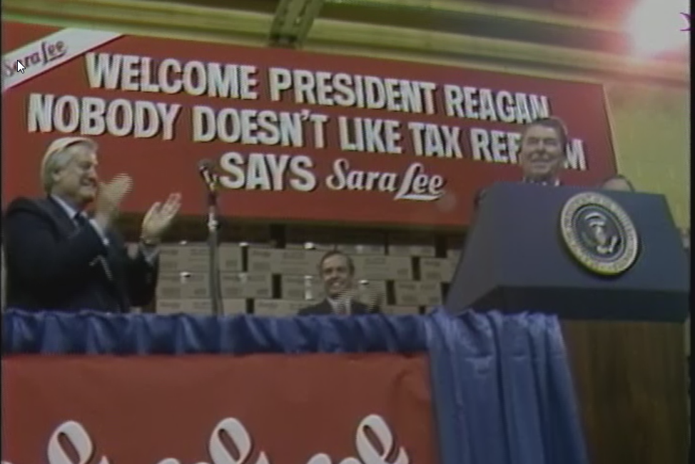 Still from Regan Administration film of President Ronald Reagan's Arrival in Illinois with Cuts of his Speech at Sara Lee and his Press Statement on the Achille Lauro in Deerfield and Cuts of his visit to the Gordon Technical High School in Chicago